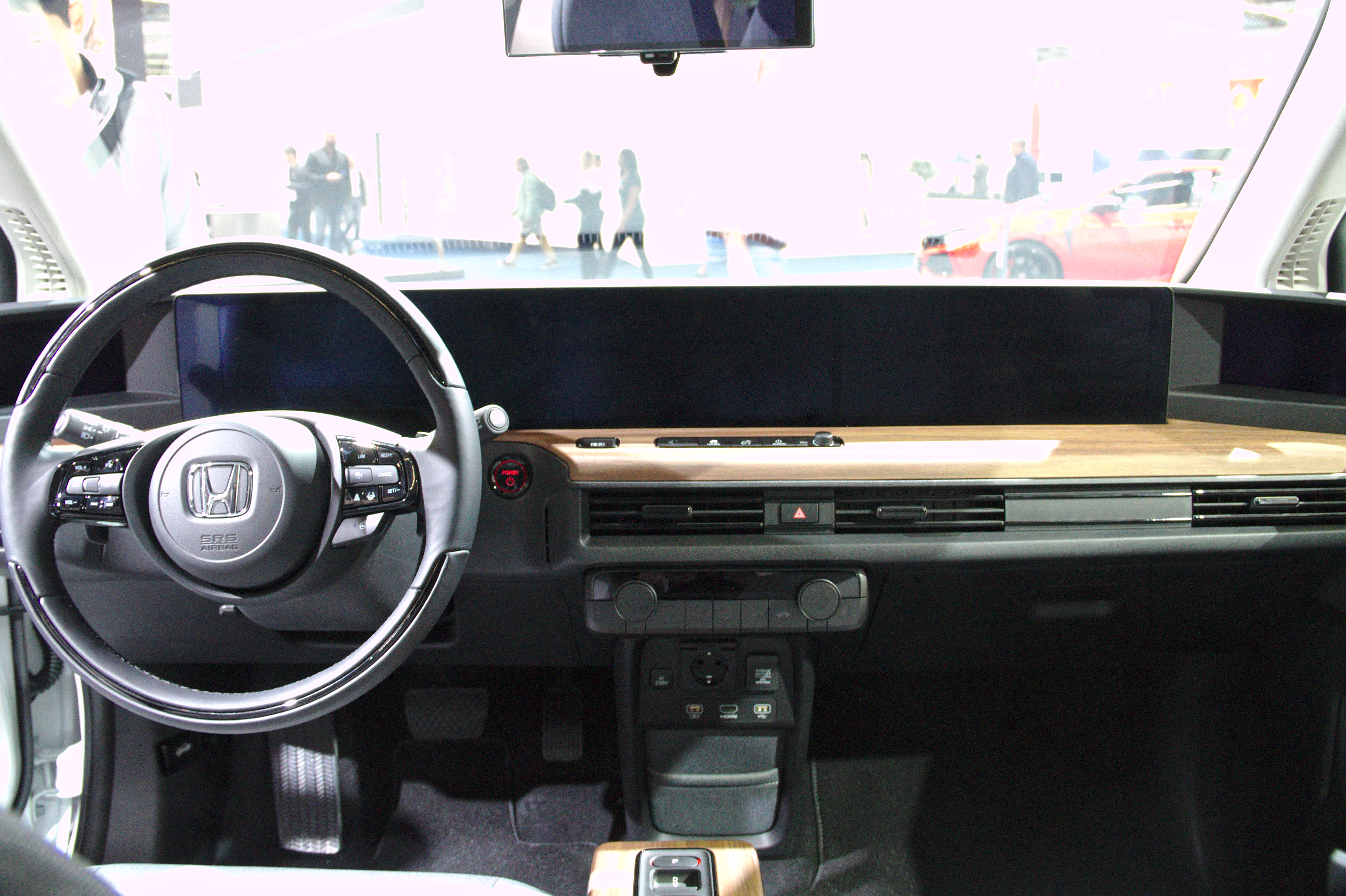 Honda_e at IAA 2019